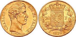 Charles X of France 20 Francs